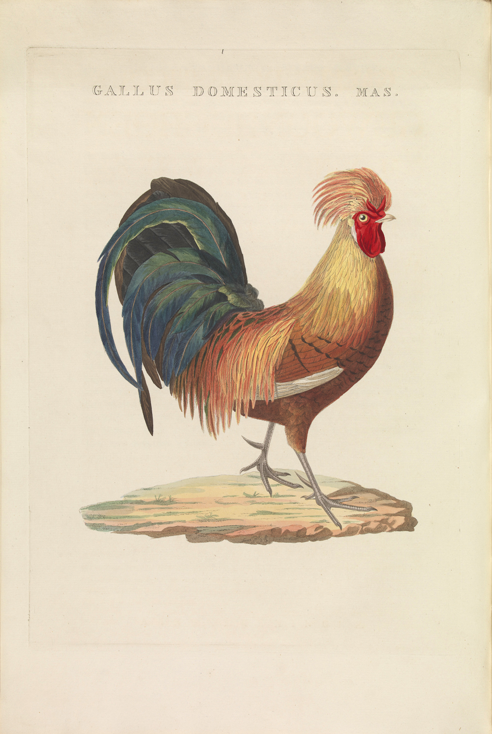 Plate 240 from the Nederlandsche vogelen by Nozeman and Sepp.